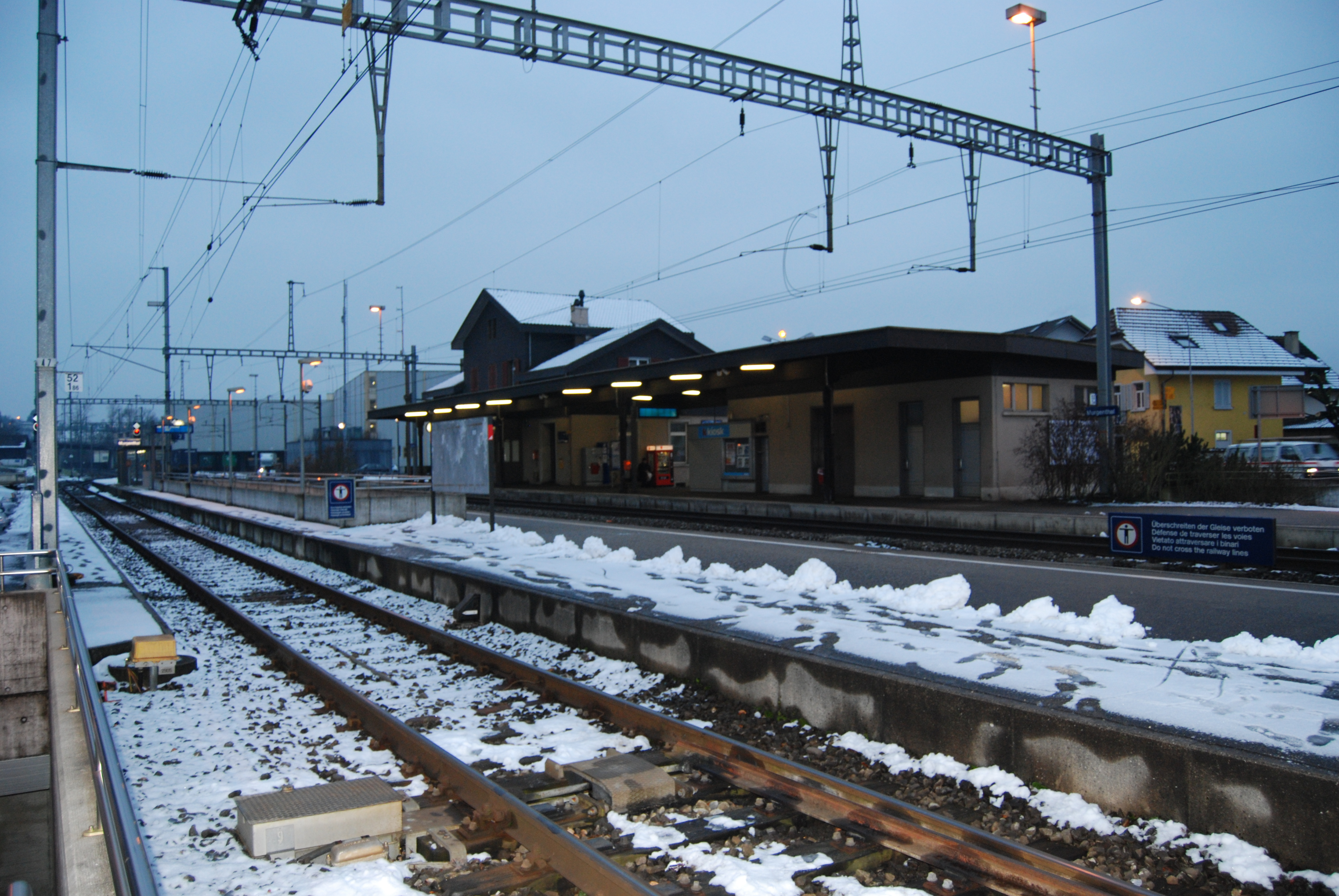 Train station of Murgenthal, canton of Aargau, SwitzerlandEsperanto: Stacidomo de Murgenthal, Kantono Argovio, Svislando